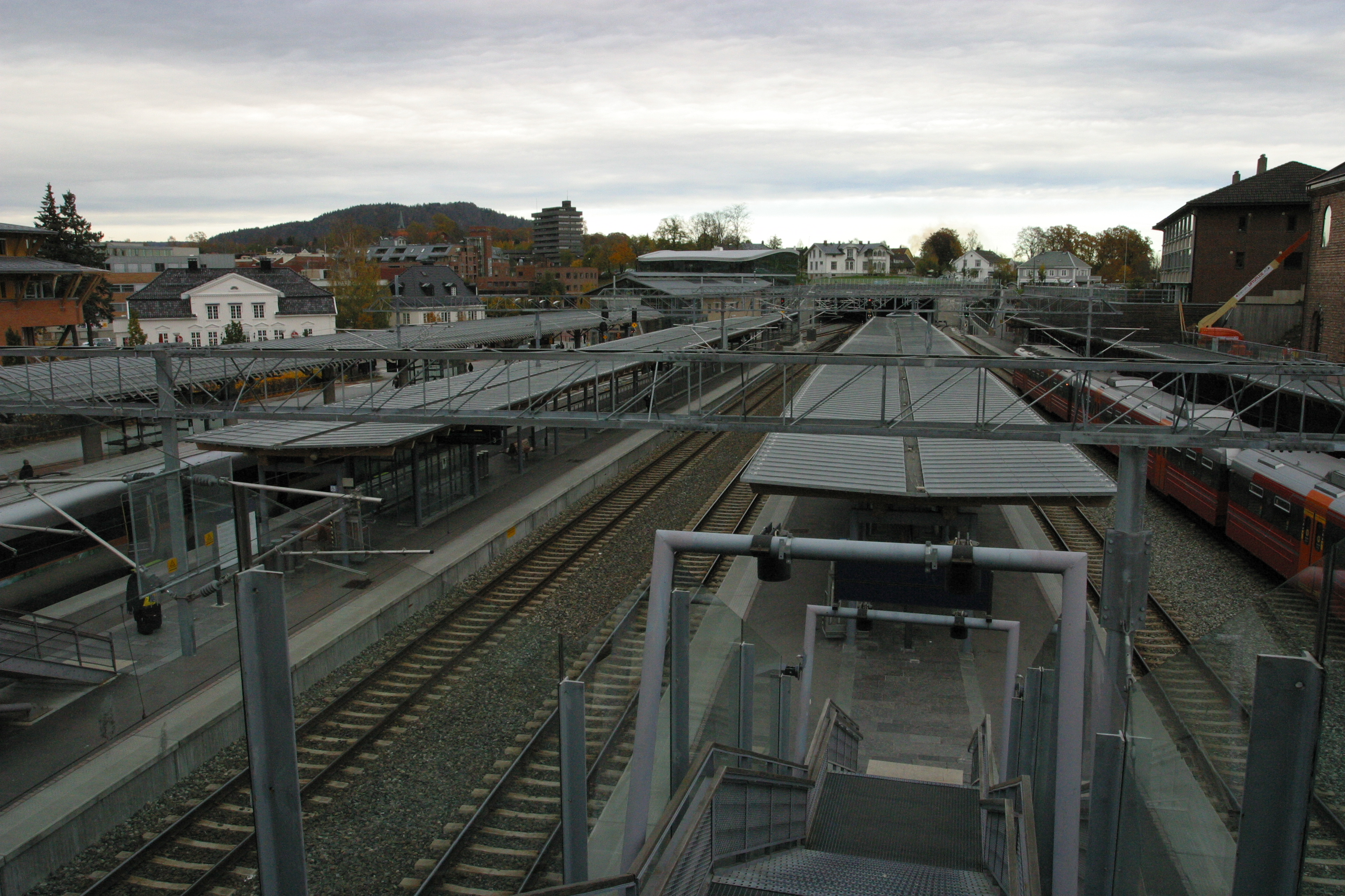 Picture of Asker railway station (Norway)